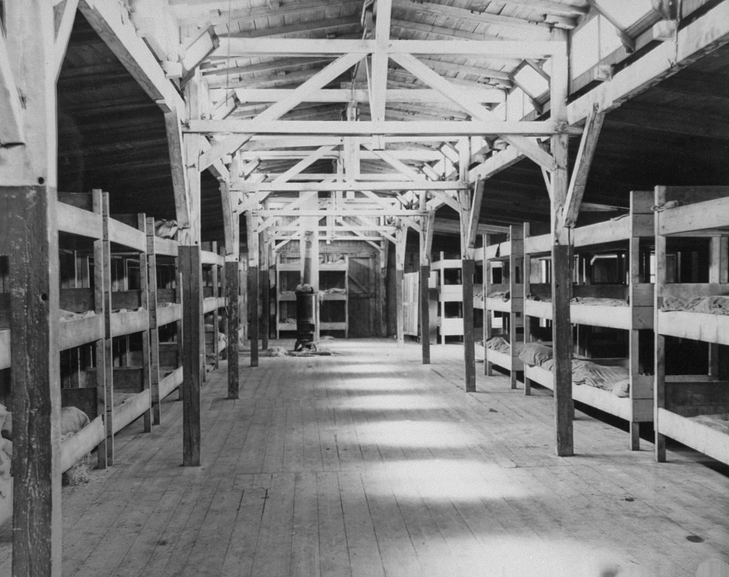 A barracks at Flossenbürg concentration camp, photographed after liberation in April or May 1945